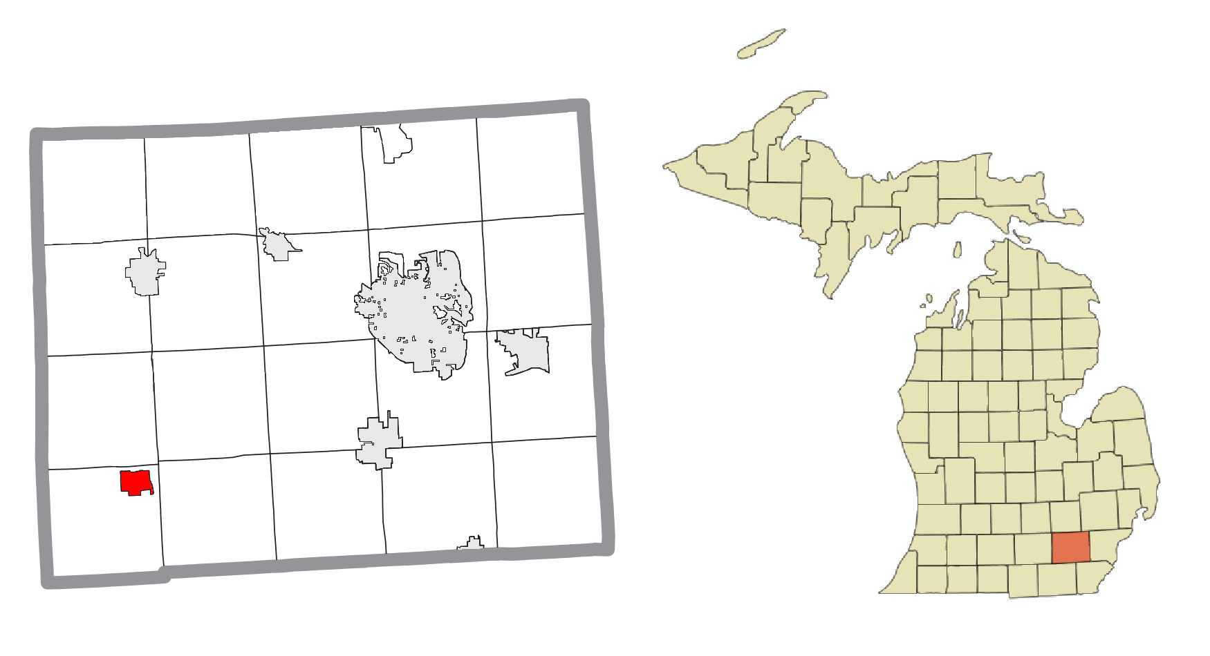 Manchester, MI